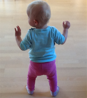 1-year-old baby walking